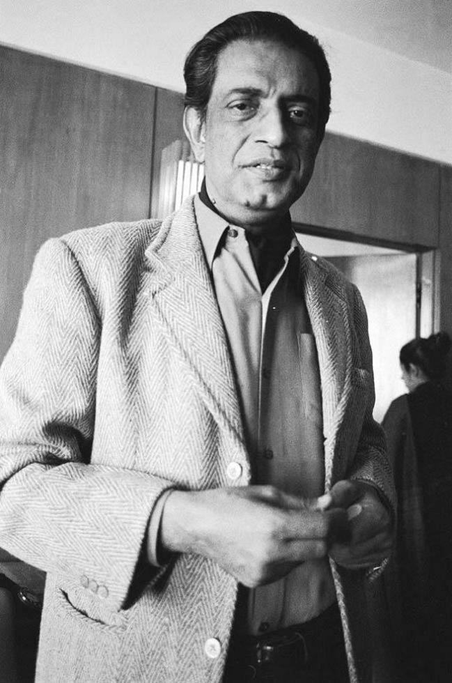 Satyajit Ray in New York captured by Dinu Alam